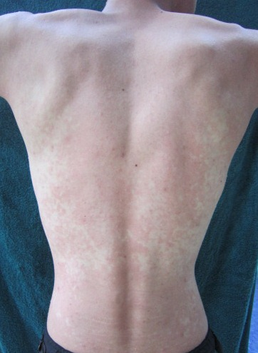 The back of an Asian man experiencing alcohol flush